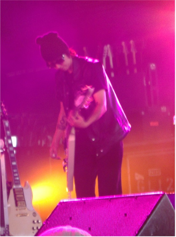 Guitar player Radio Sloan, on tour with Peaches in 2006.